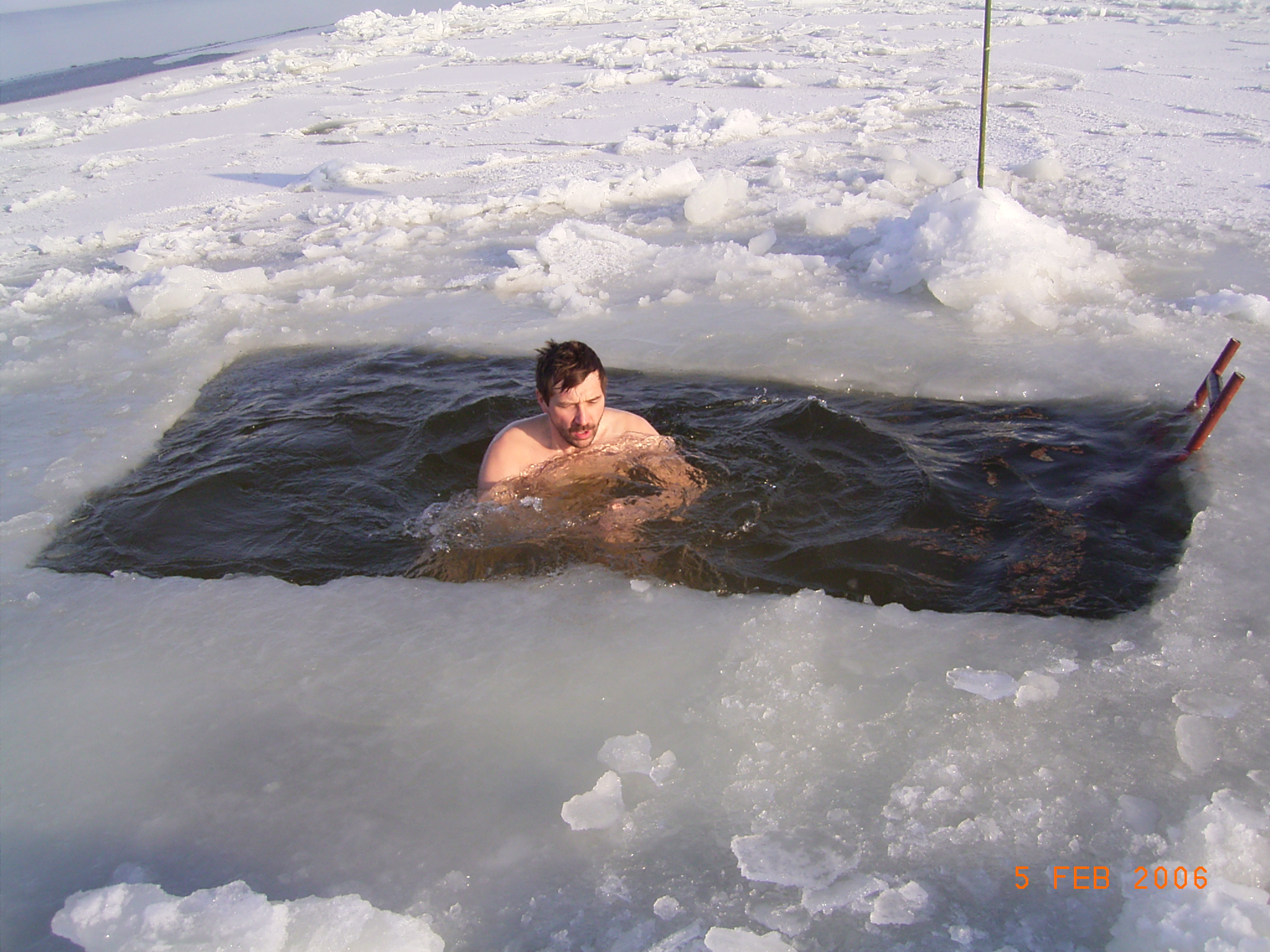 winter swimming championchip in Latvia